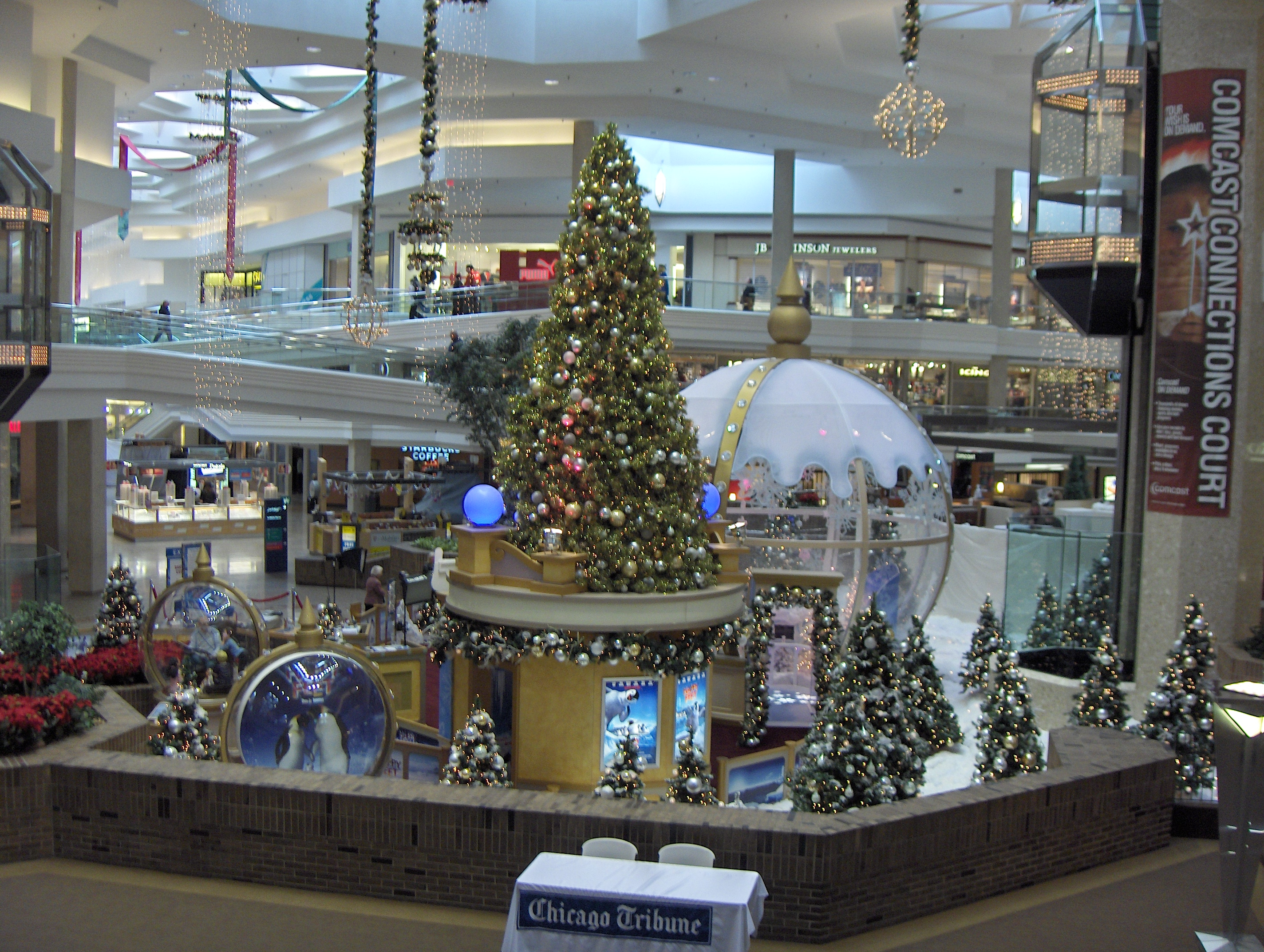 Christmas decorations at the mall over the road from Midwest FurFest.